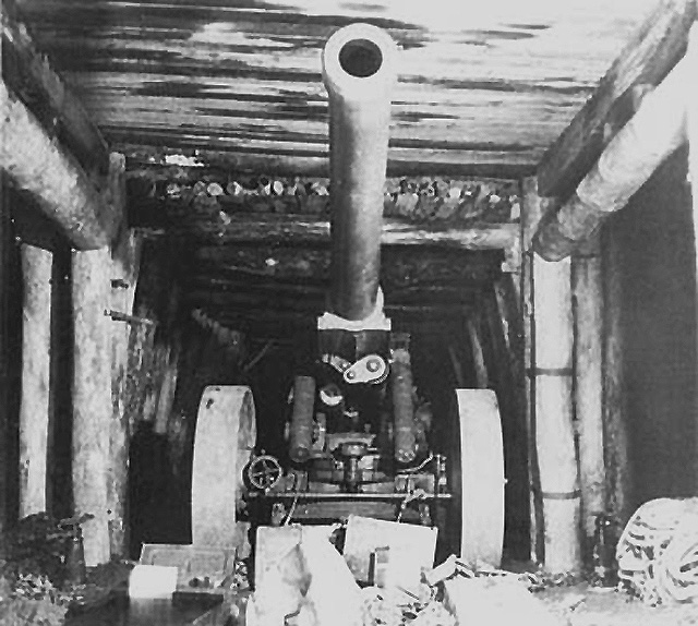 Uncovered on Motobu Peninsula, hidden in a cave, was this Japanese Type 89 150mm gun waiting to be used against 6th Marine Division troops advancing northwards.